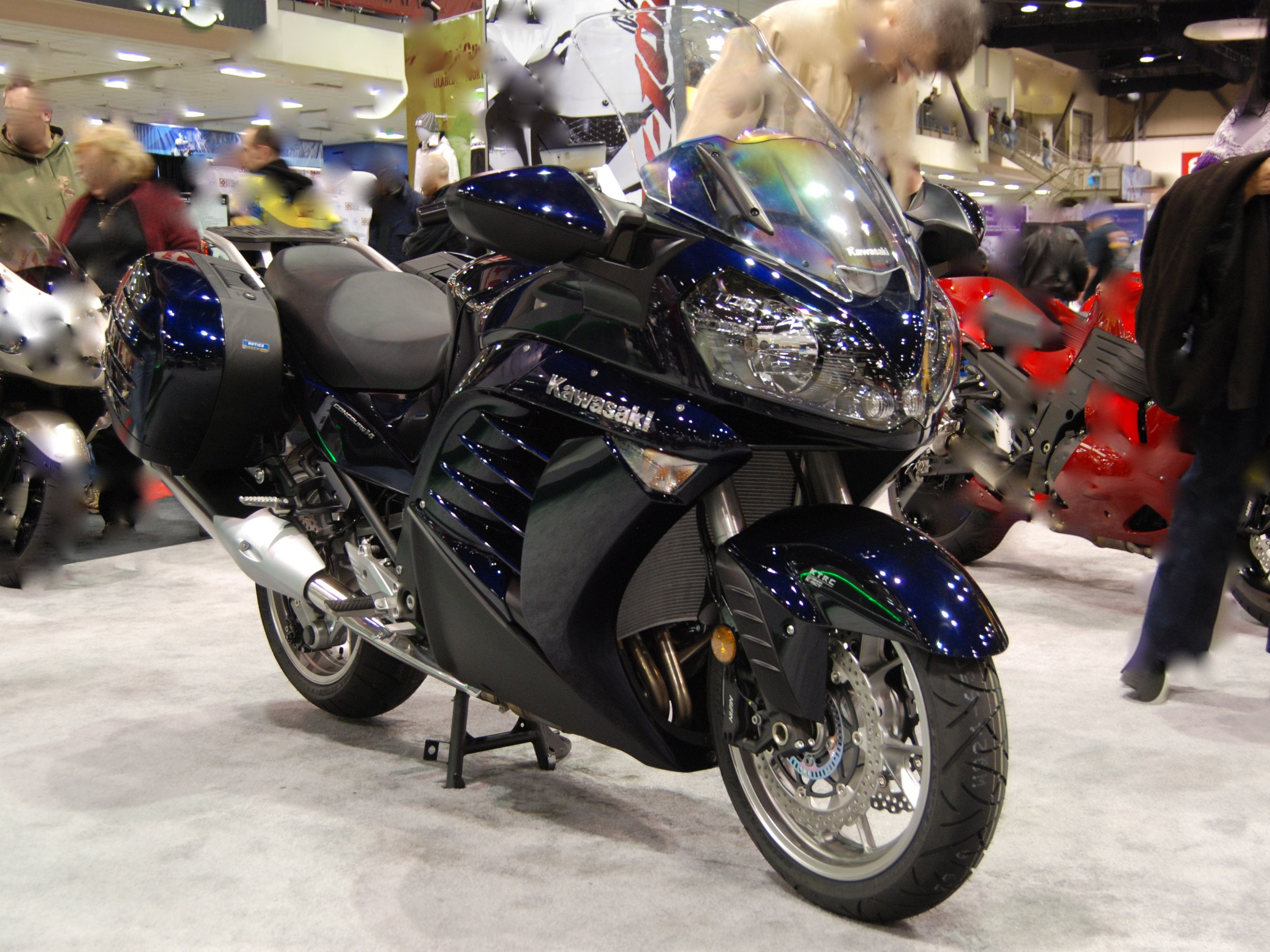 2010 Kawasaki Concours 14 at the 2009 Seattle International Motorcycle Show